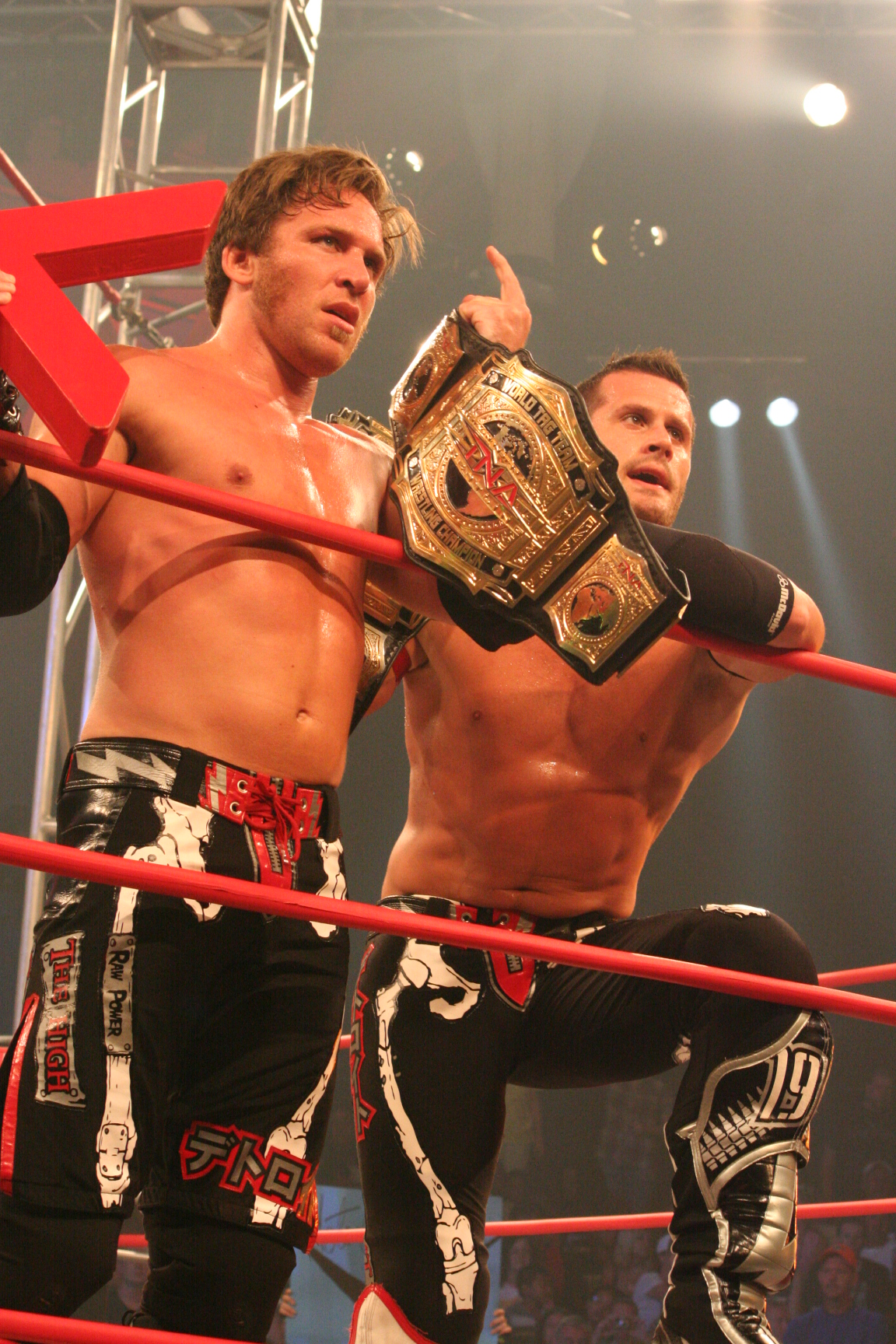 Professional wrestlers Chris Sabin and Alex Shelley at a TNA Impact! taping